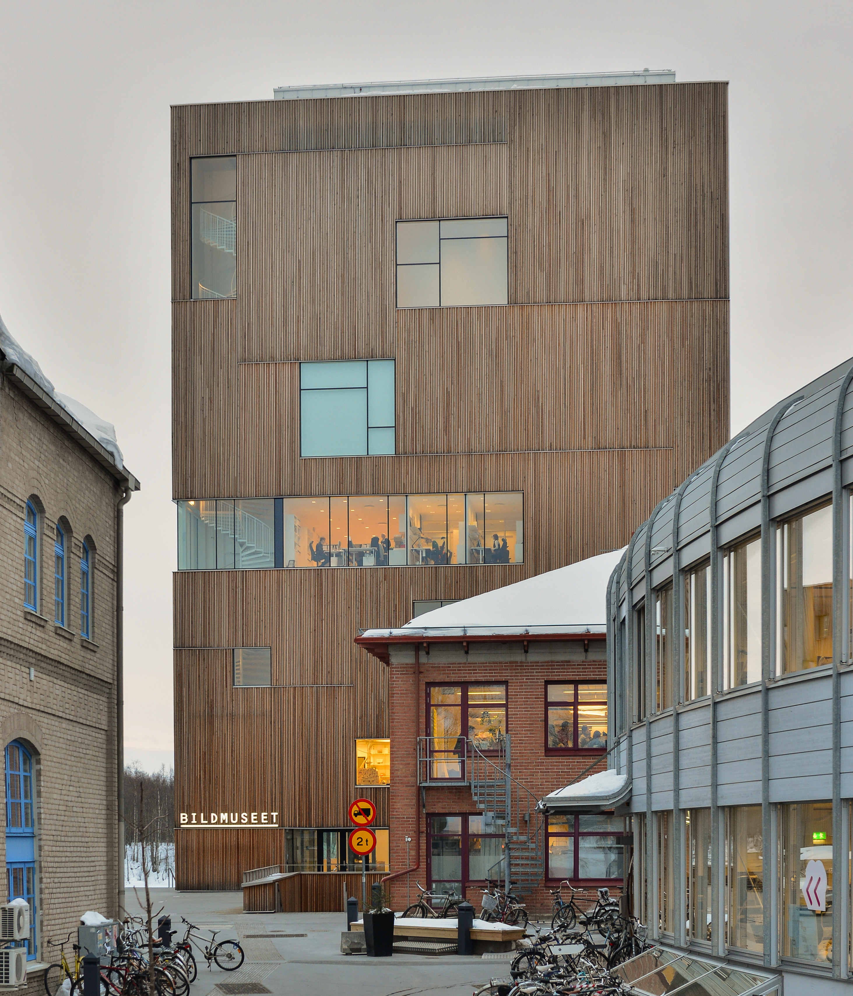 Bildmuseet is a public institution for contemporary art and visual culture in Umeå, Västerbotten, Sverige. The building was designed by Henning Larsen Architects and its part of the new Arts Campus in Umeå.